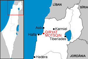 Localization of Qiryat Motsqin within Israel.